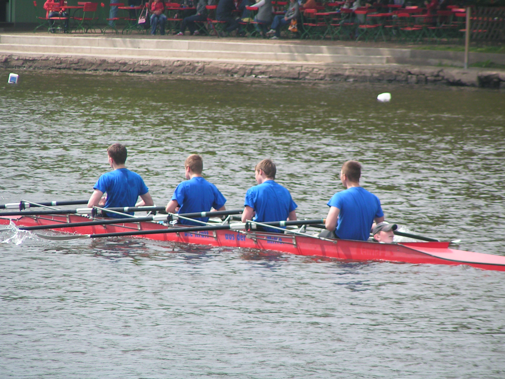 A coxed quad scull(x4+)at Bernburg Race.